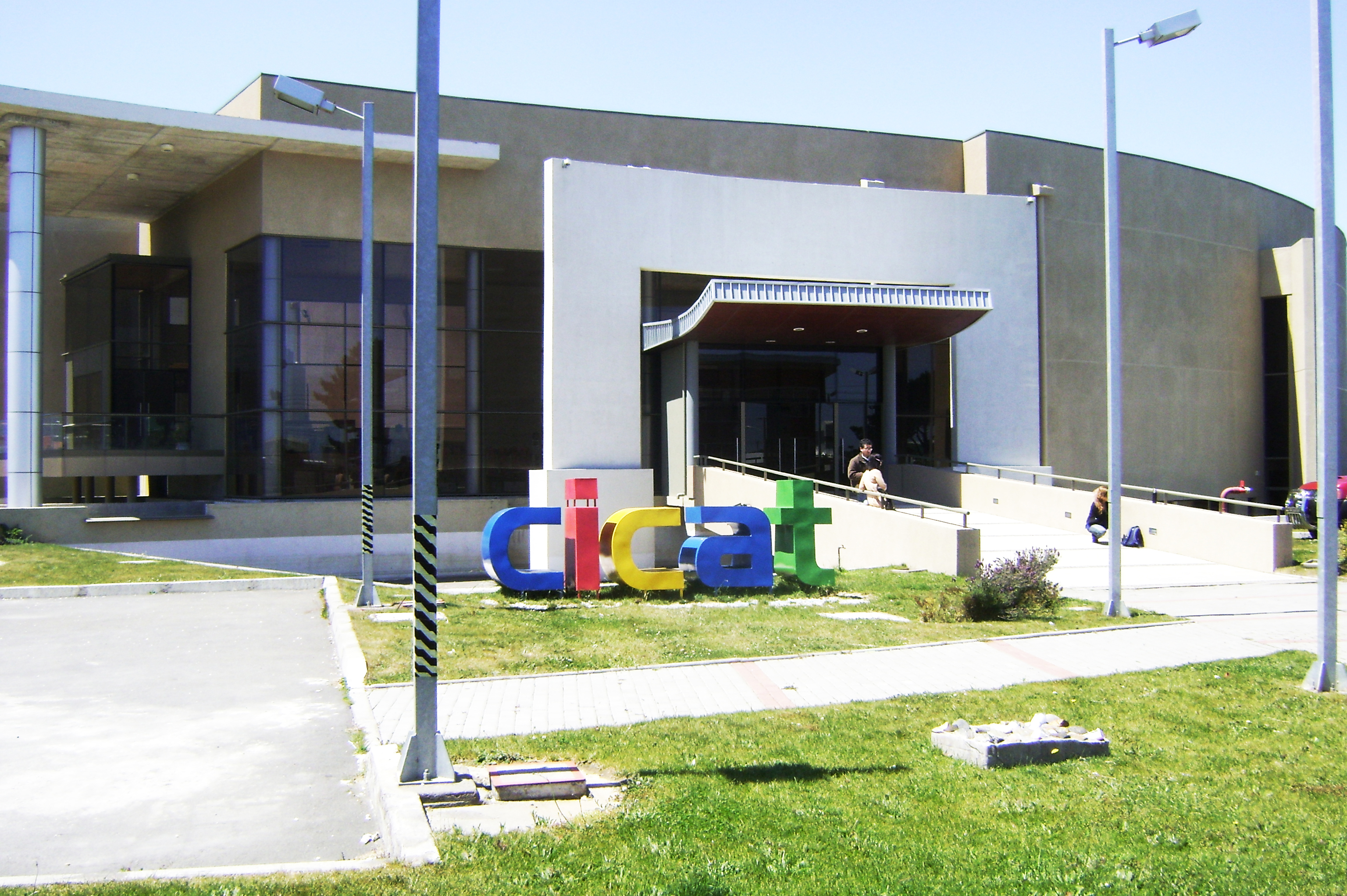 Interactive museum Cicat, Coronel, Chile